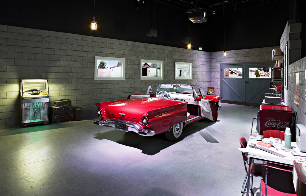 Rockheim - exhibitions.